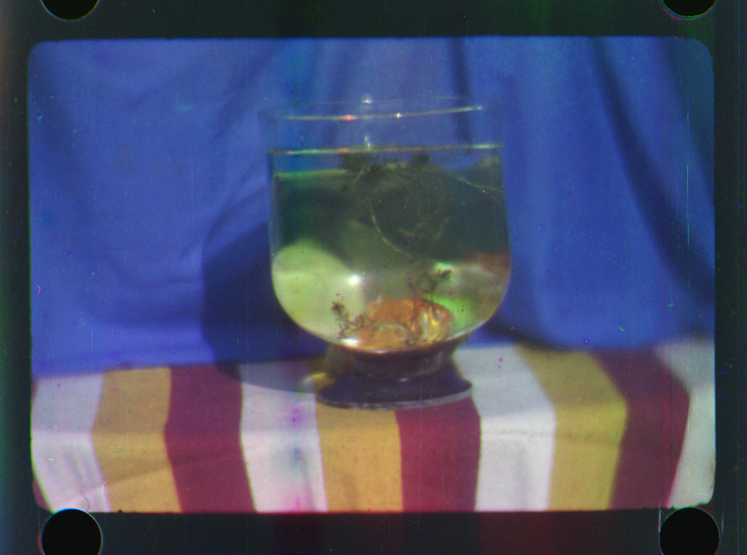 Image from the National Media Museum Collection. Following a transfer of the collection from the Science Museum to the National Media Museum in 2009, two rolls of film were discovered. Curator of Cinematography, Michael Harvey, identified them as being original Lee and Turner film and organised initial tests to see if the colour information could be recovered. Initially we took three frames of film, coloured them red, green and blue and superimposed them in Photoshop. The resulting image, in full colour, was stunning. This led to us considering restoring the whole roll of film in this manner. This was undertaken by archive experts David Cleveland and Brian Pritchard using a combination of traditional laboratory techniques and digital technology. They followed Turner’s method exactly and were able to reveal the full-colour moving images. They can now be seen for the first time in 110 years in the Museum alongside the original equipment used by Turner. We're happy for you to share this digital image within the spirit of The Commons. Certain restrictions on high quality reproductions of the original physical version of apply though; if you're unsure please visit the National Media Museum website. For obtaining reproductions of selected images please go to the Science and Society Picture Library.